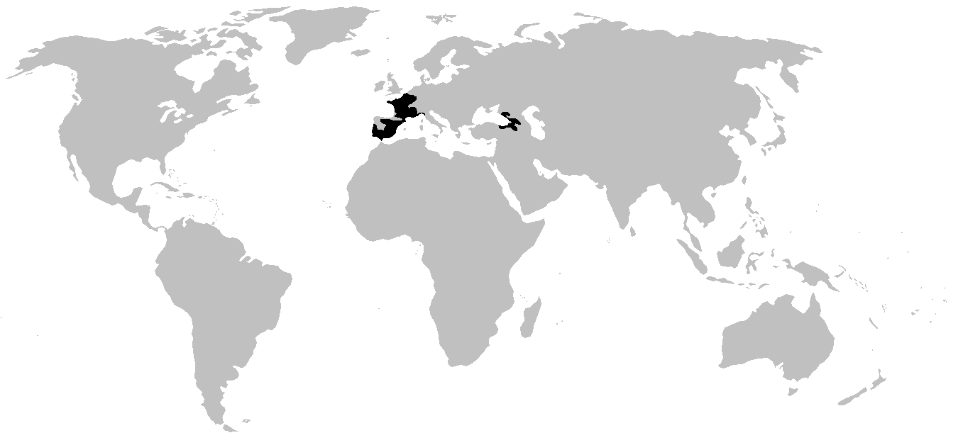 Distribution of Pelodytidae.